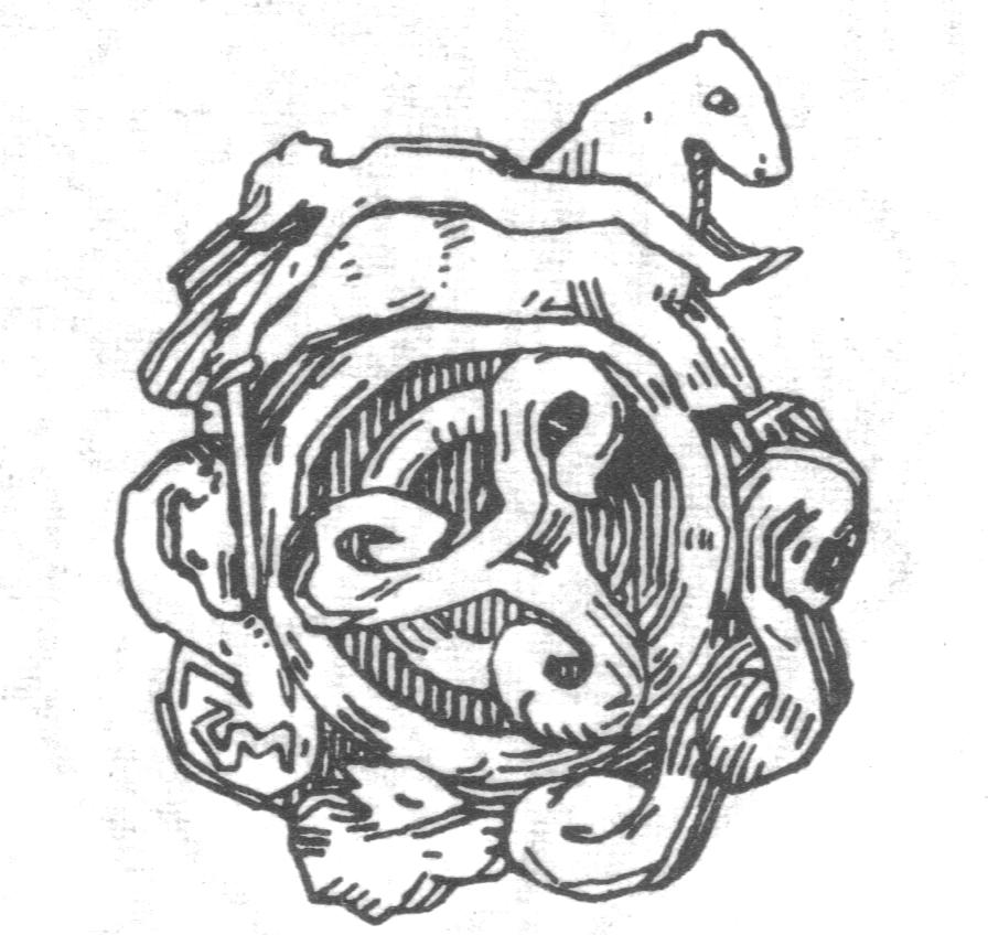 Gerhard Munthe: Illustration for Ynglingesaga. Snorre 1899-edition. 26